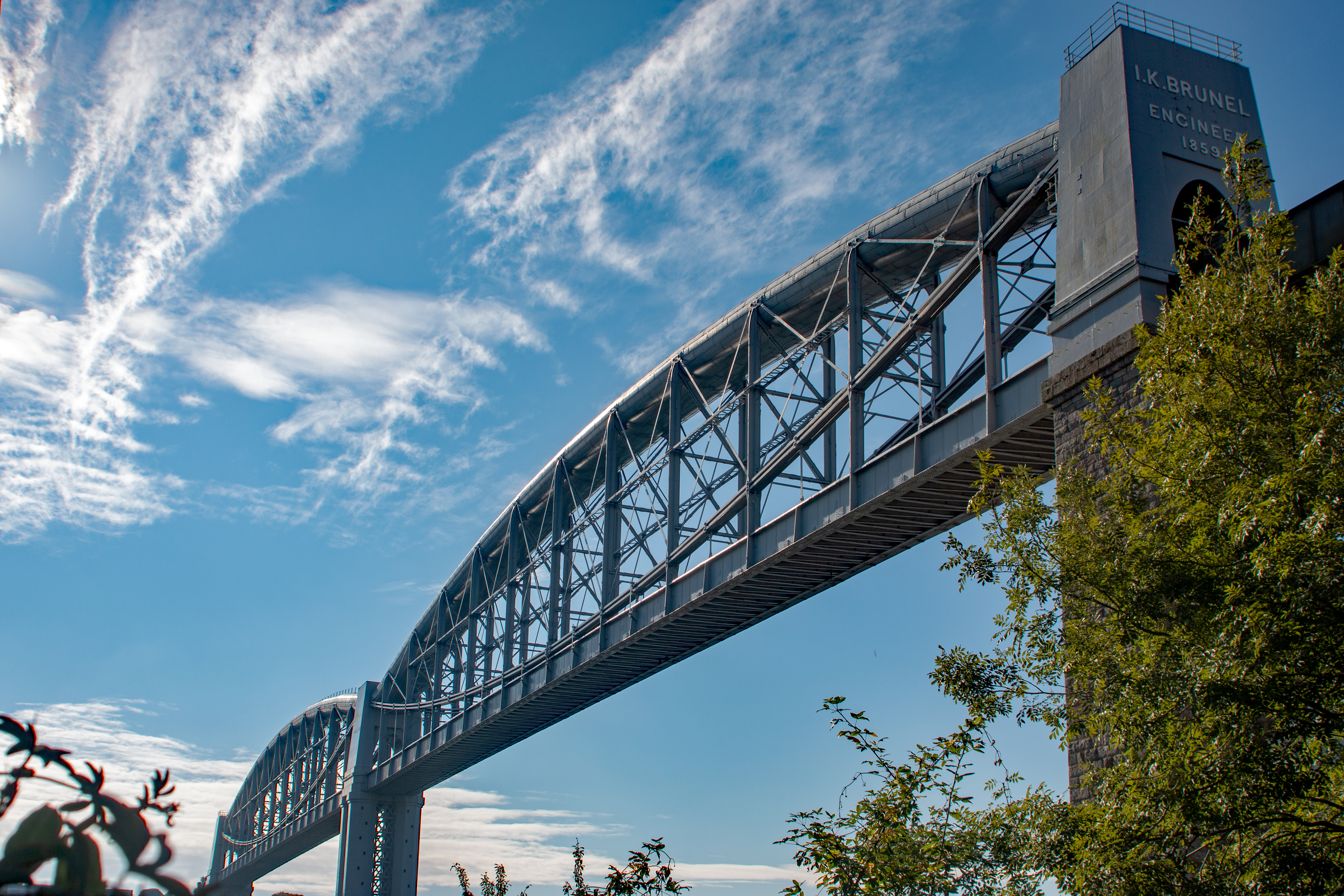 Brunel's Royal Albert Bridge across the Tamar, following the 2010-2014 restoration by Network Rail. Wikidata has entry Q1570586 with data related to this item.